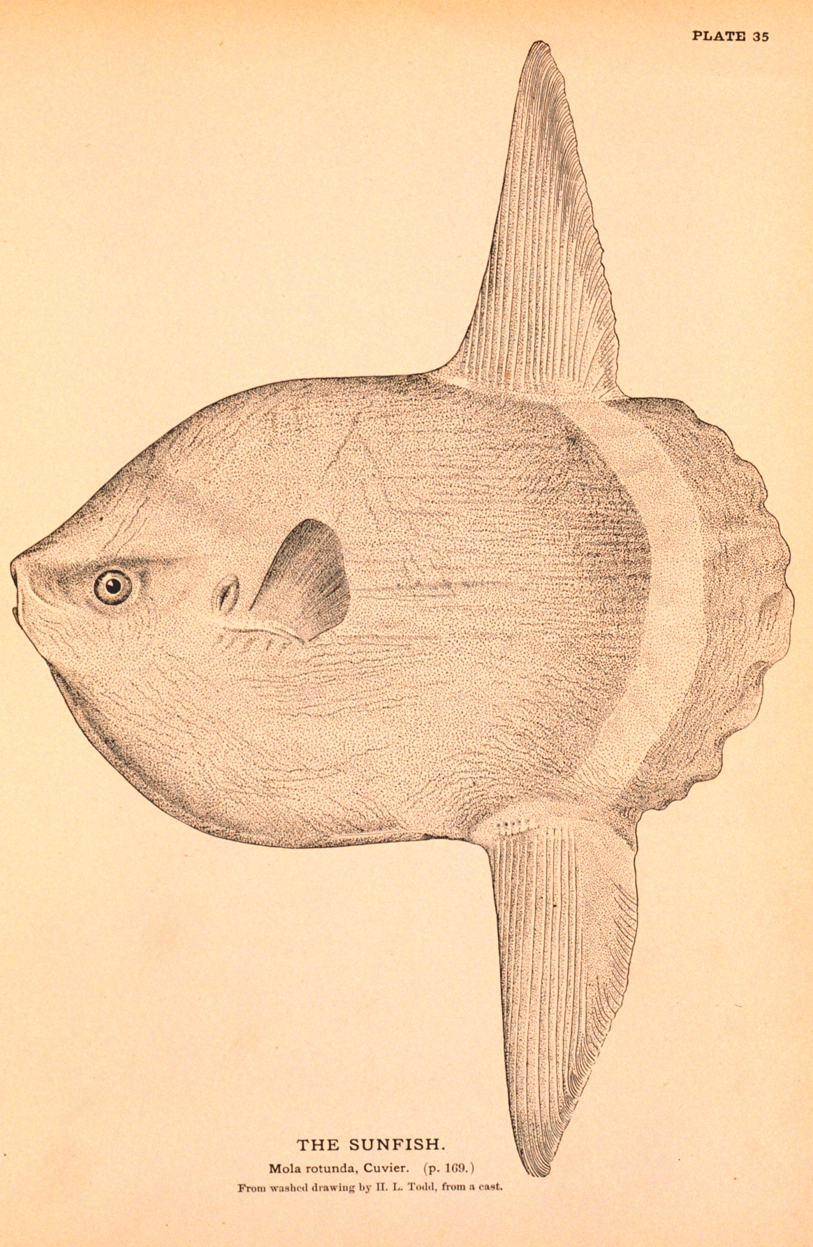 Engraving of Sunfish Mola mola, from the Natural History of Useful Aquatic Animals.